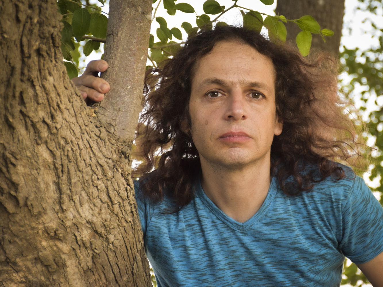 Professor of communication - Amir Hetsroni